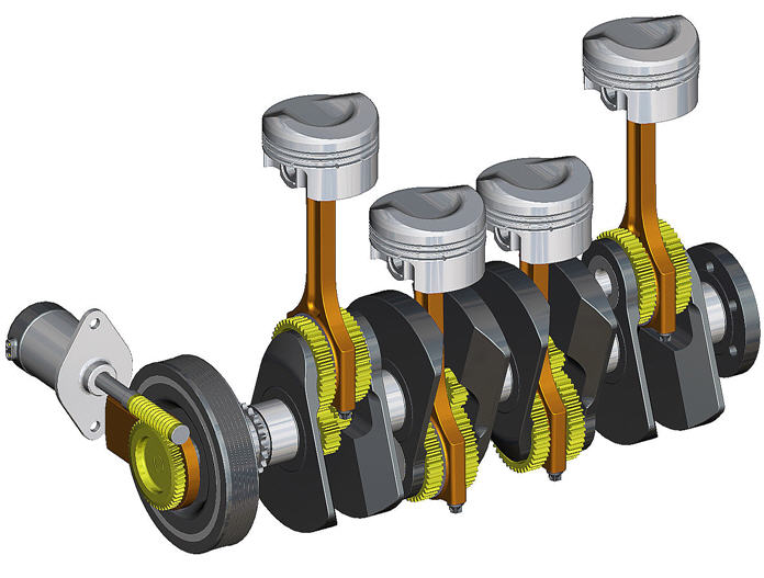 Gomecsys Gen4 VCR crankshaft for a 4-inline engine